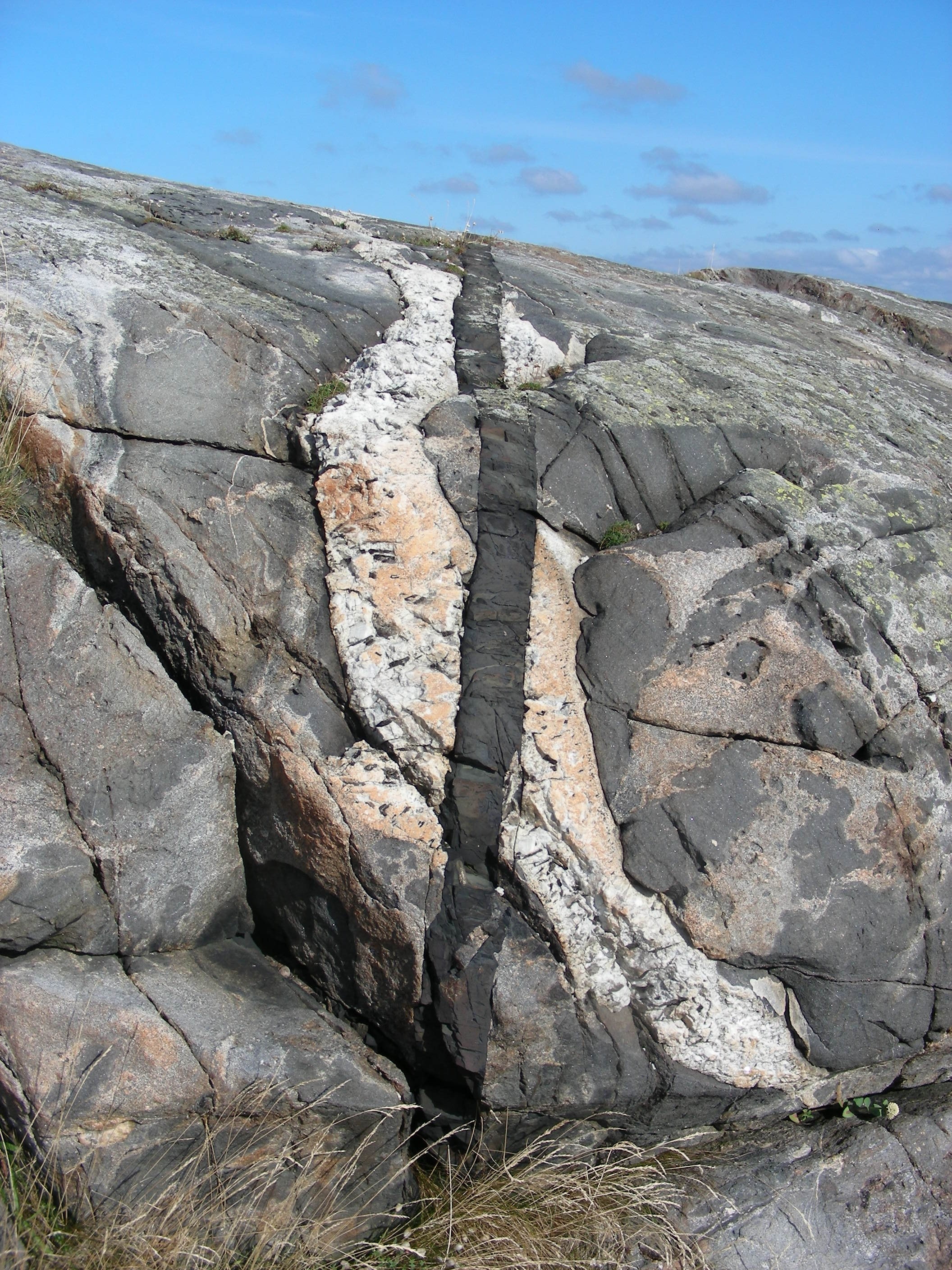 An igneous intrusion cut by a pegmatite dyke, which in turn is cut by a dolerite dyke. These rocks are of Precambrian (Proterozoic) age and they are located in Kosterhavet National Park on Yttre Ursholmen island in the Koster Islands in Sweden. The oldest igneous rocks in this photo show features caused by magma mingling or magma mixing.